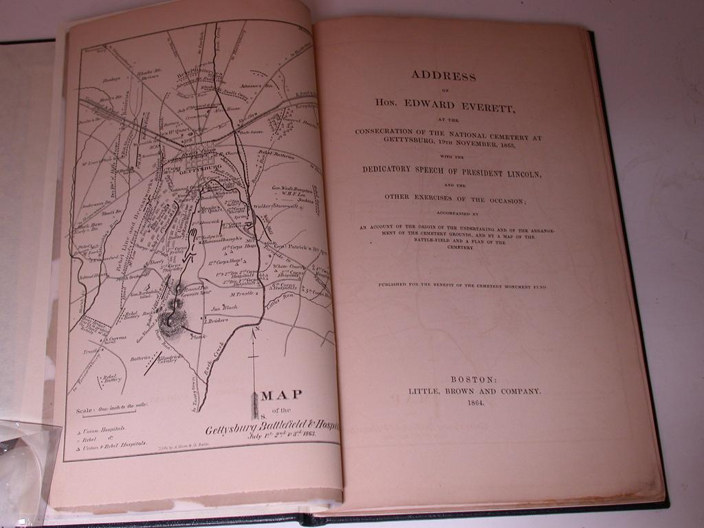 TrueScans Image of the Title Page and Battle Map as published in Everetts's 1864 Book entitled, "Address of the Hon. Edward Everett At the Consecration of the National Cemetery At Gettysburg, 19th November 1863, with the Dedicatory Speech of President Lincoln, and the Other Exercises of the Occasion; Accompanied by An Account of the Origin of the Undertaking and of the Arrangement of the Cemetery Grounds, and by a Map of the Battle-field and a Plan of the Cemetery"